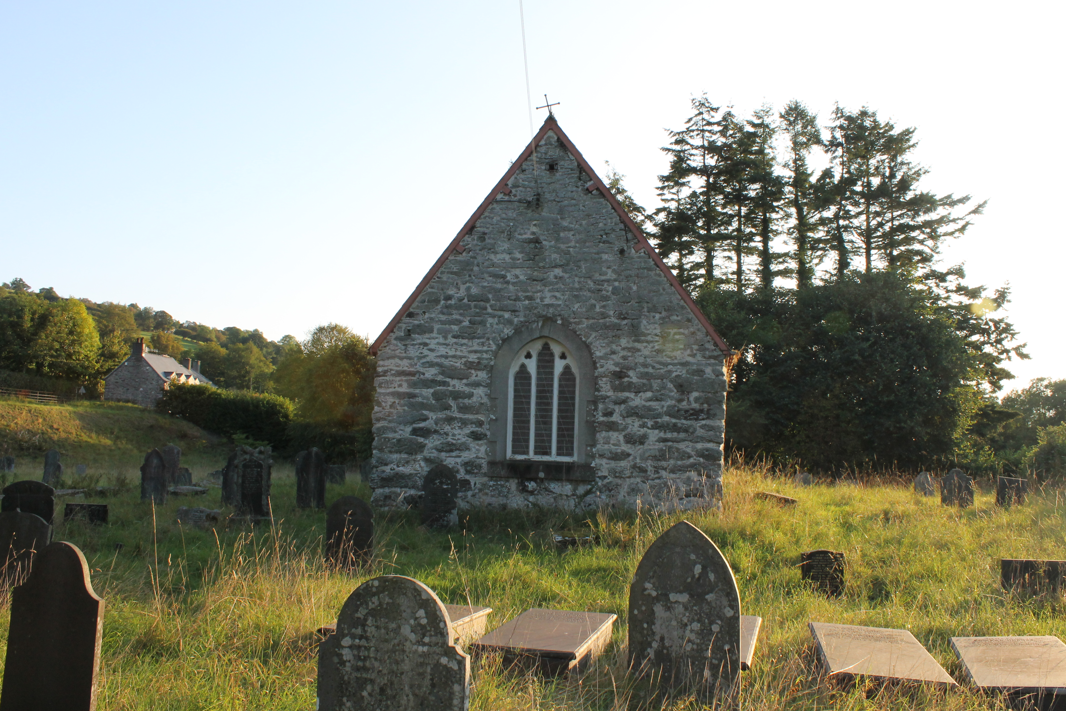 St. Cywair, Llangywer, Bala, Gwynedd.